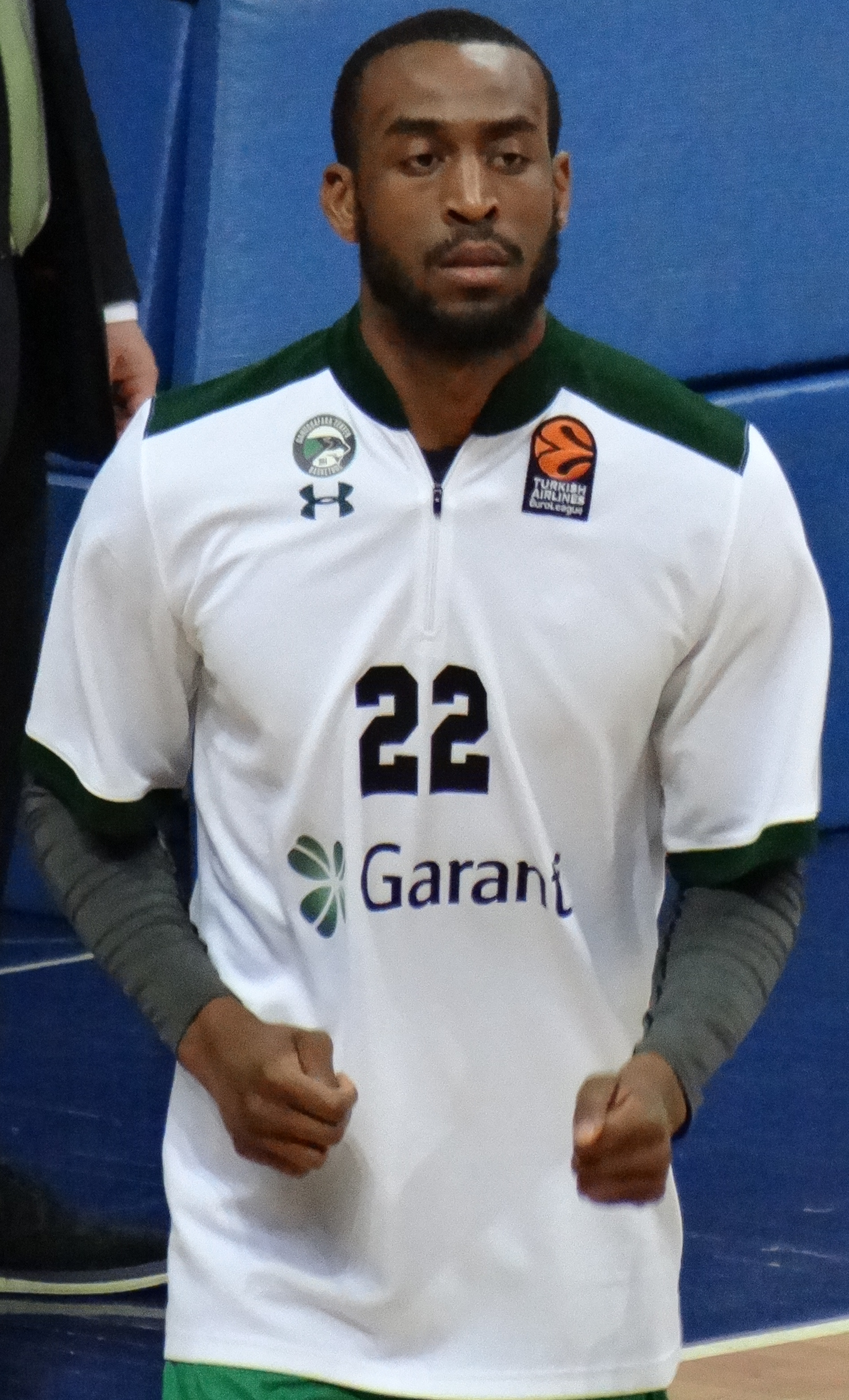 Markel Brown 22 Darüşşafaka Tekfen 20181120